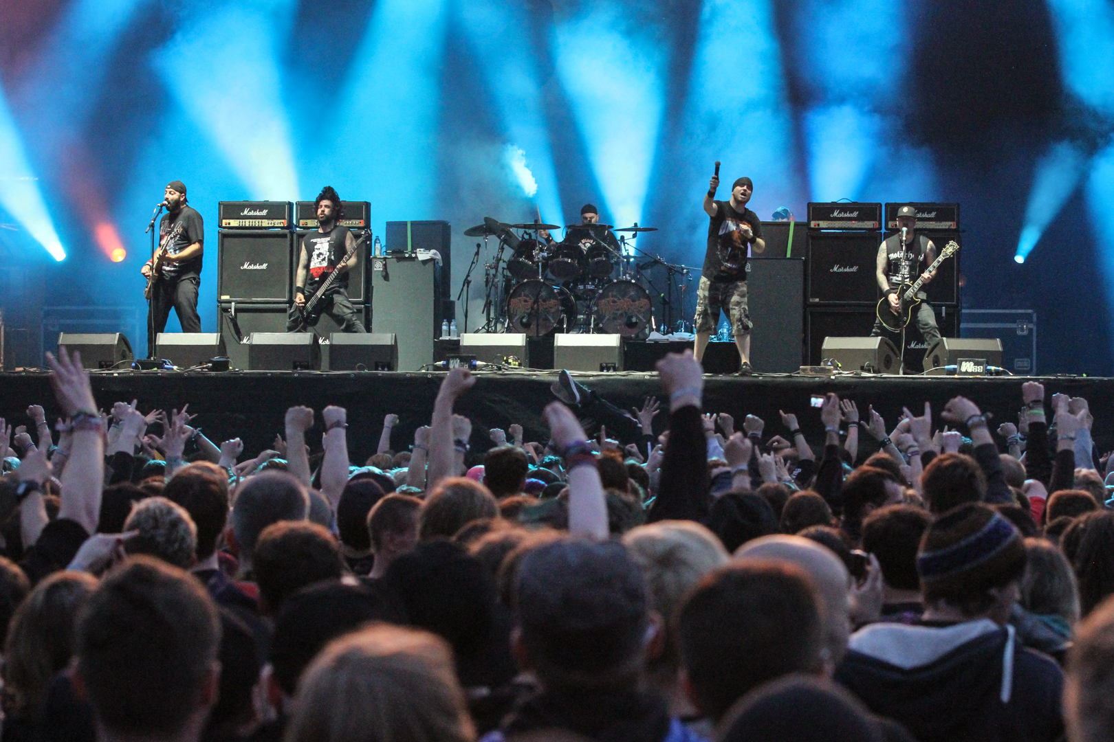 Festivalsommer This photo was created with the support of donations to Wikimedia Deutschland in the context of the CPB project "Festival Summer".